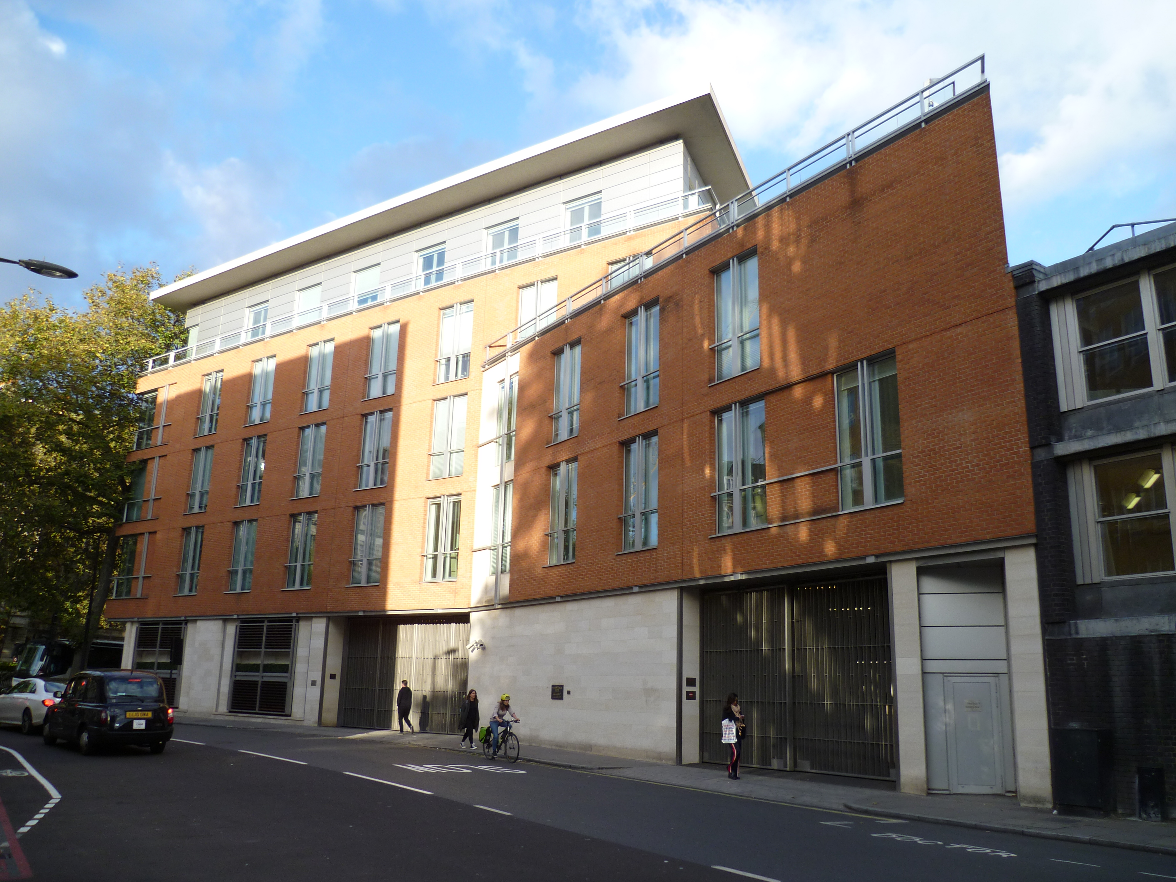 London